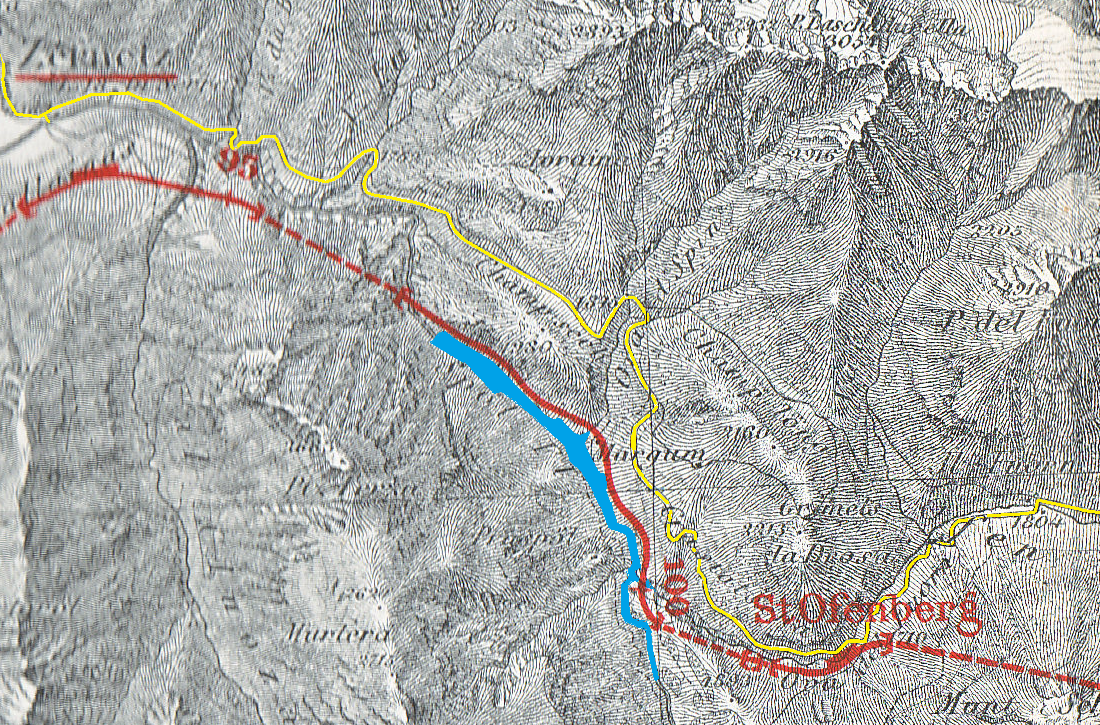 Today's position of Lai dad Ova Spin, relative to the old Fuorn Pass route as well as the 1898 railway plans on the Dufour Map. Derived from file "Ofenberg tunnel.jpg".